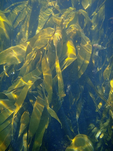 Kelp forest, Ardtoe Kelp (laminaria digitata) is also called tangle, for obvious reasons. The kelp beds are very rich in underwater wildlife.